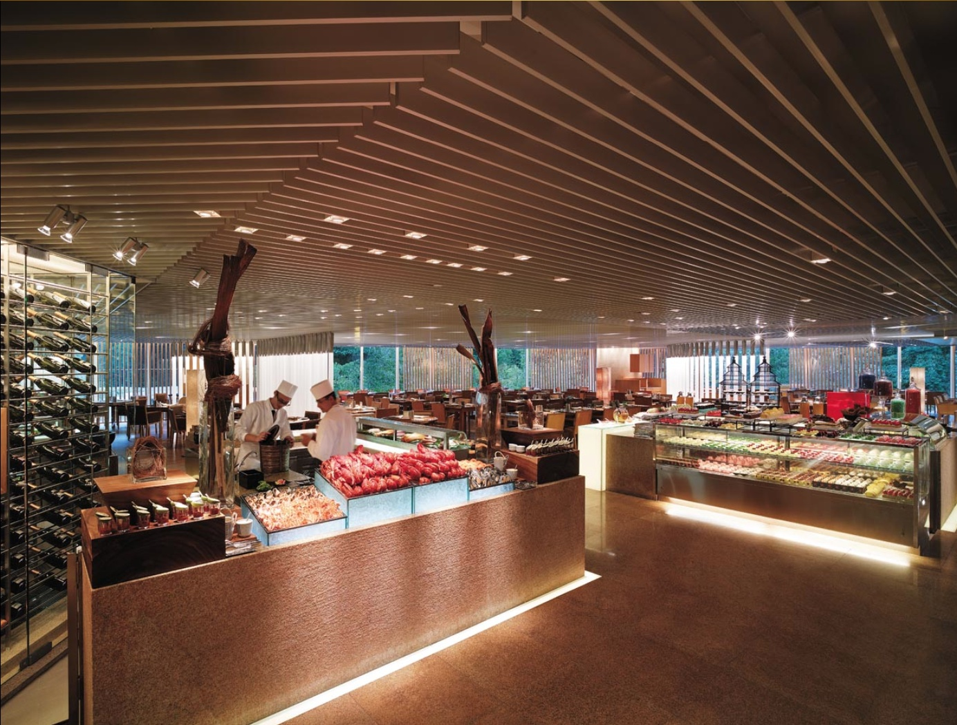 Island Shangri-La, Hong Kong - Cafe TOO